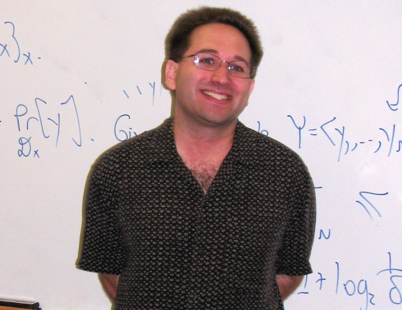 Computer science researcher Scott Aaronson. Cropped, adjusted levels, corrected red eye from original.